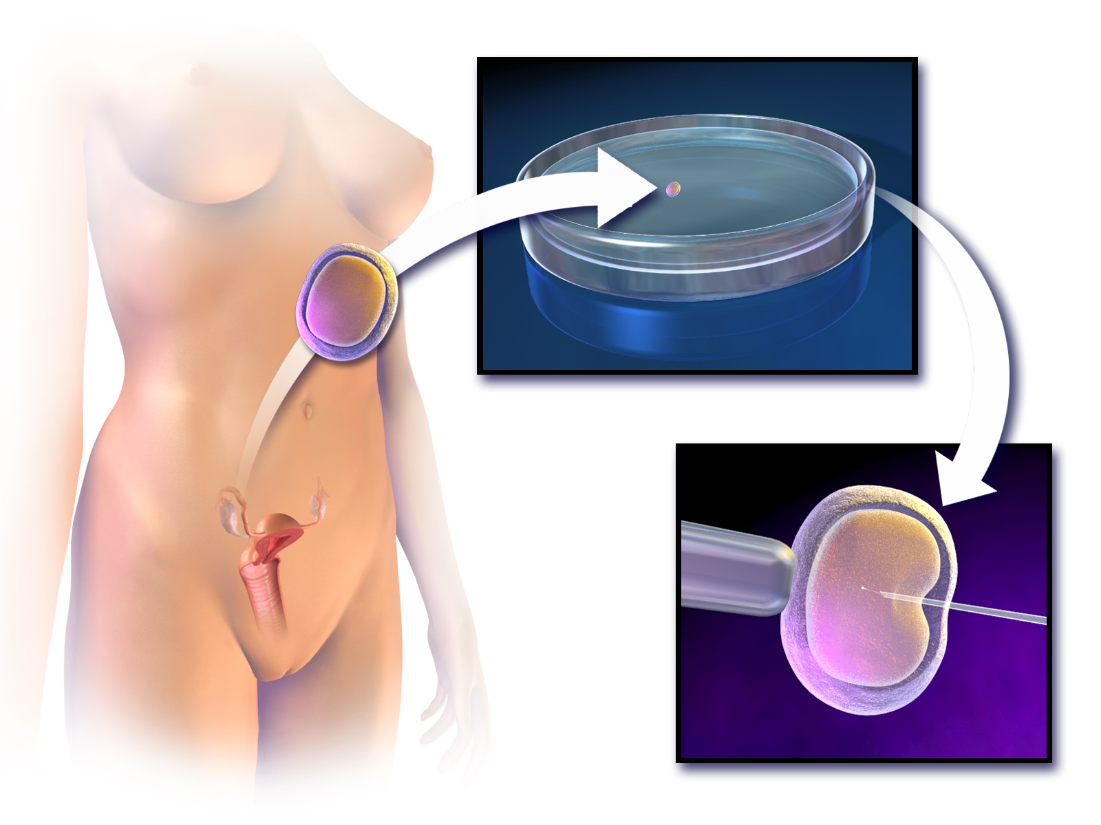 In Vitro Fertilization. See a full animation of this medical topic.